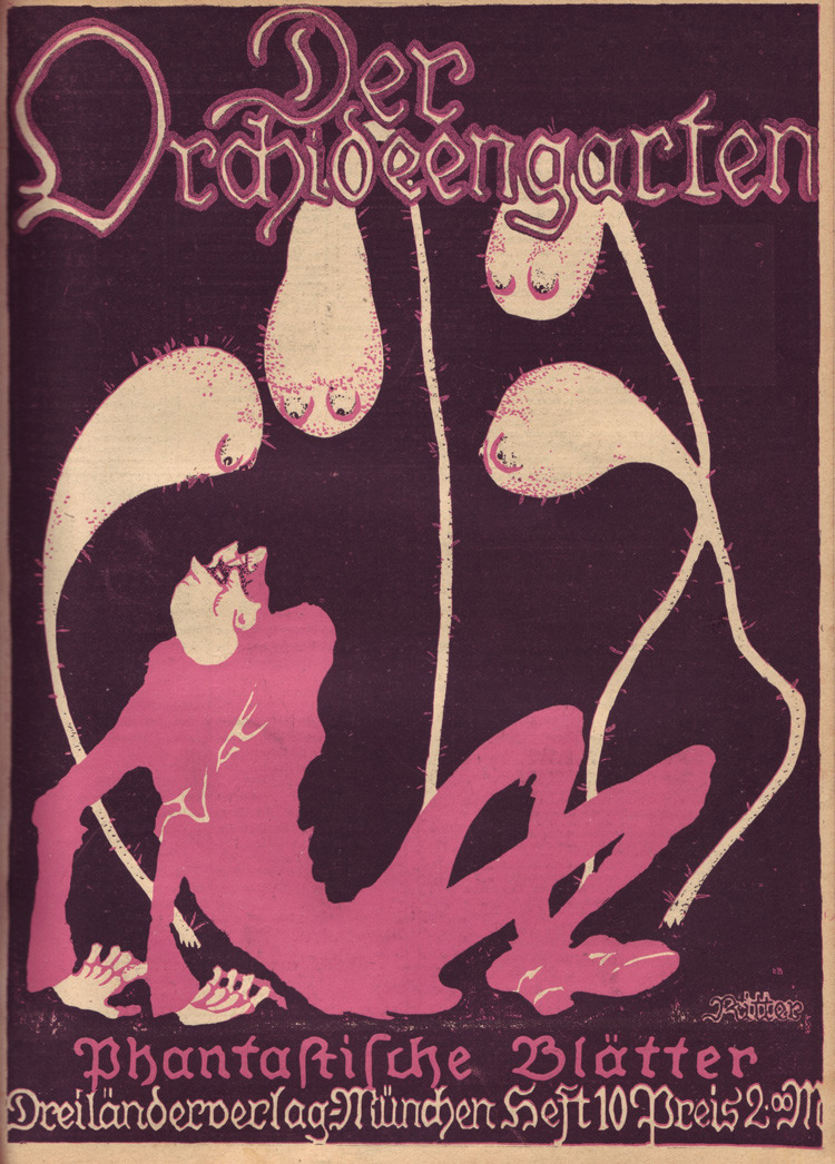 Der Orchideengarten, 1920 cover